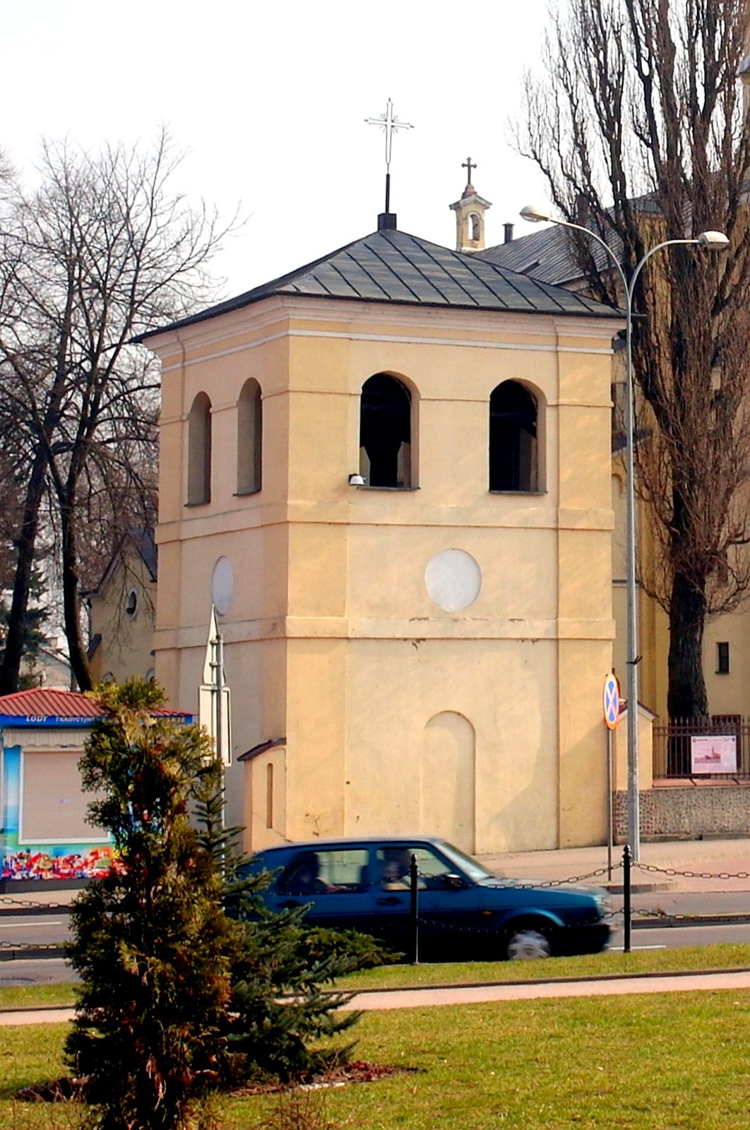 Brick belfry next to the church of the Holy Trinity, Copernicus str., Grajewo City. Built in 1837.